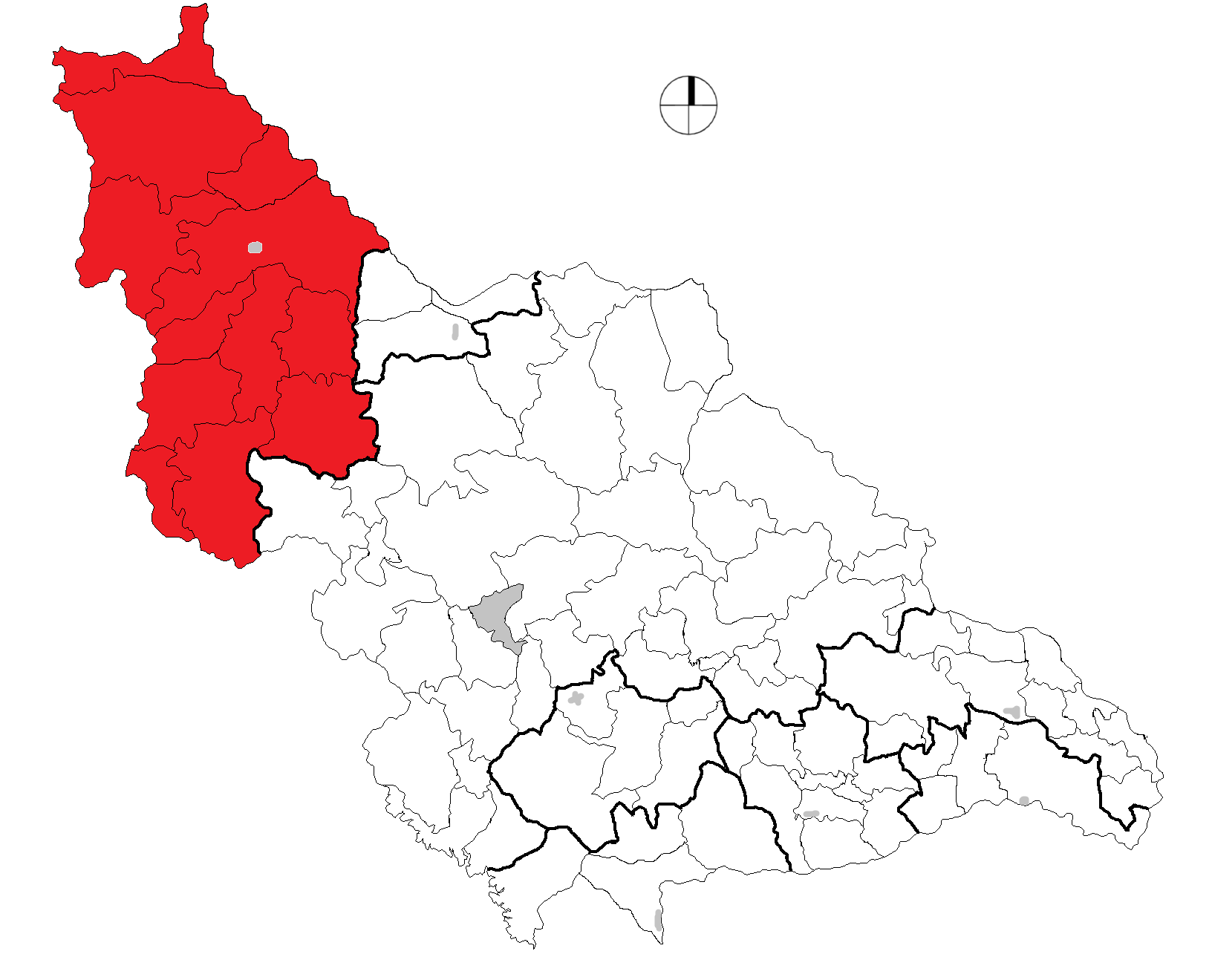 Mapa de Aragón en Santa Rosa de Osos